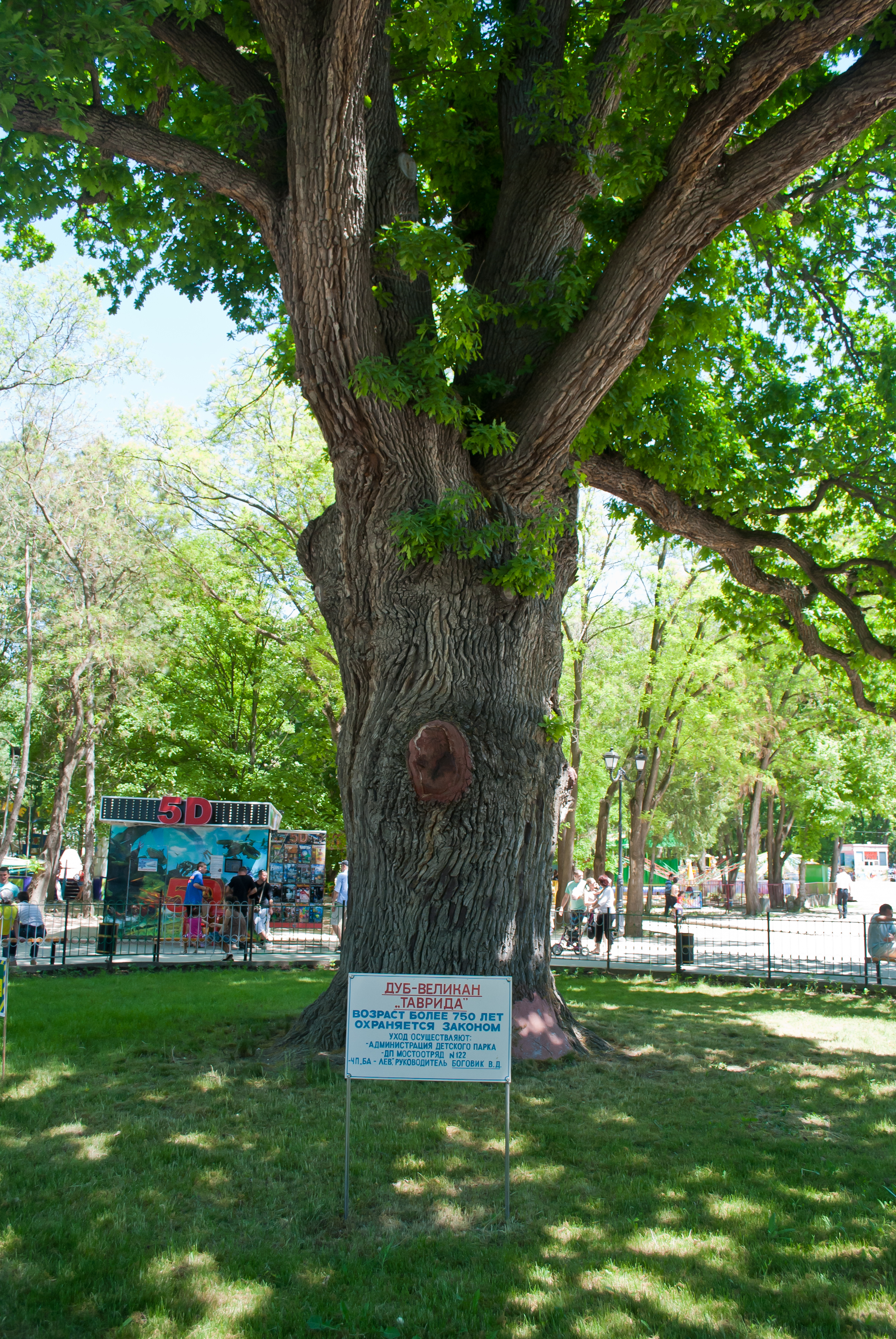 The oak "Tavrida" in children's park of SimferopolEsperanto: La kverko "Taŭrido" en la porinfana parko de Simferopolo